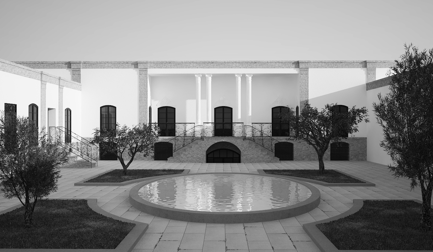 Abbas Gharib live durin 1949